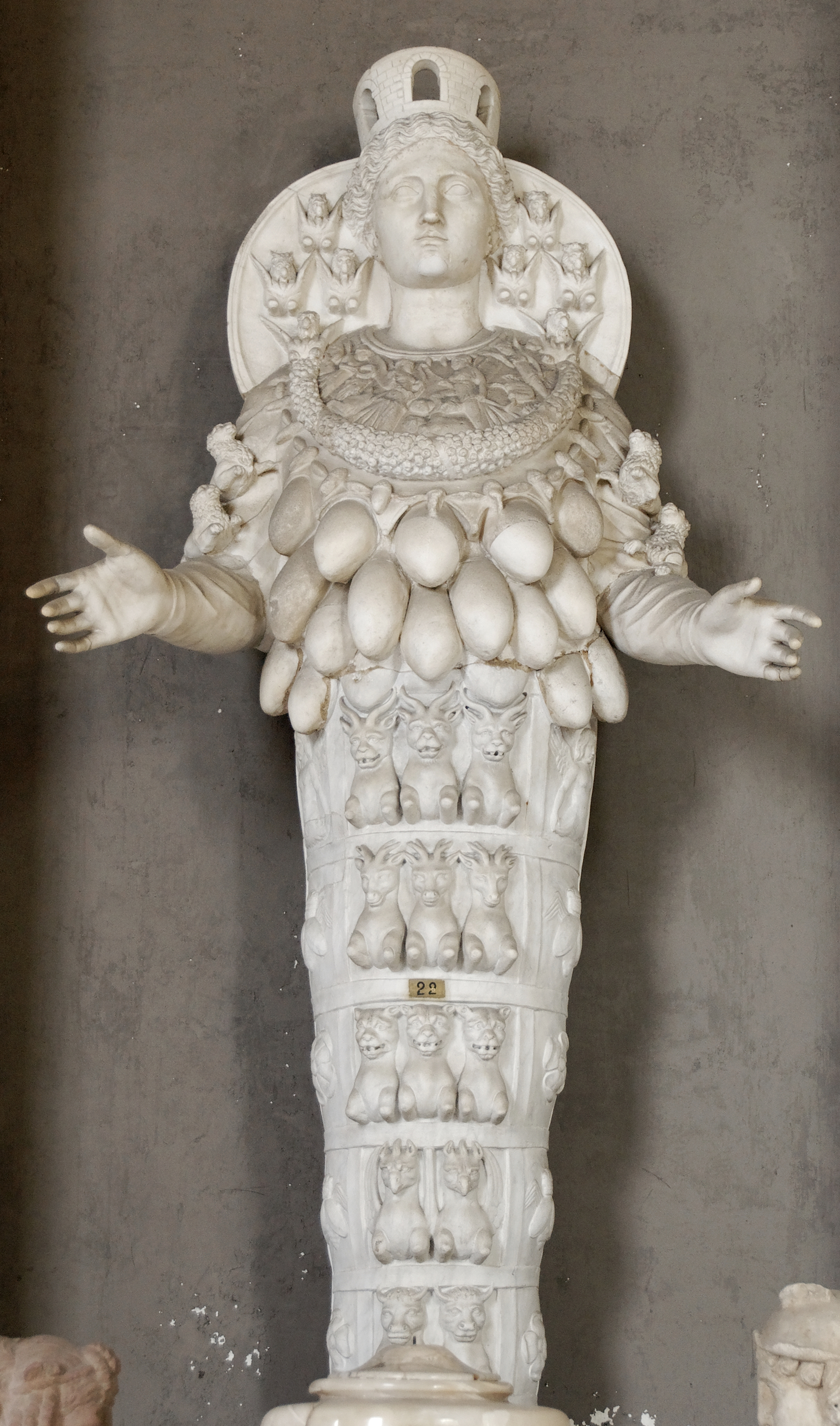 Statue of the type of Artemis Ephesiana. Marble, 2nd century AD. From the Villa Adriana, near Tivoli.